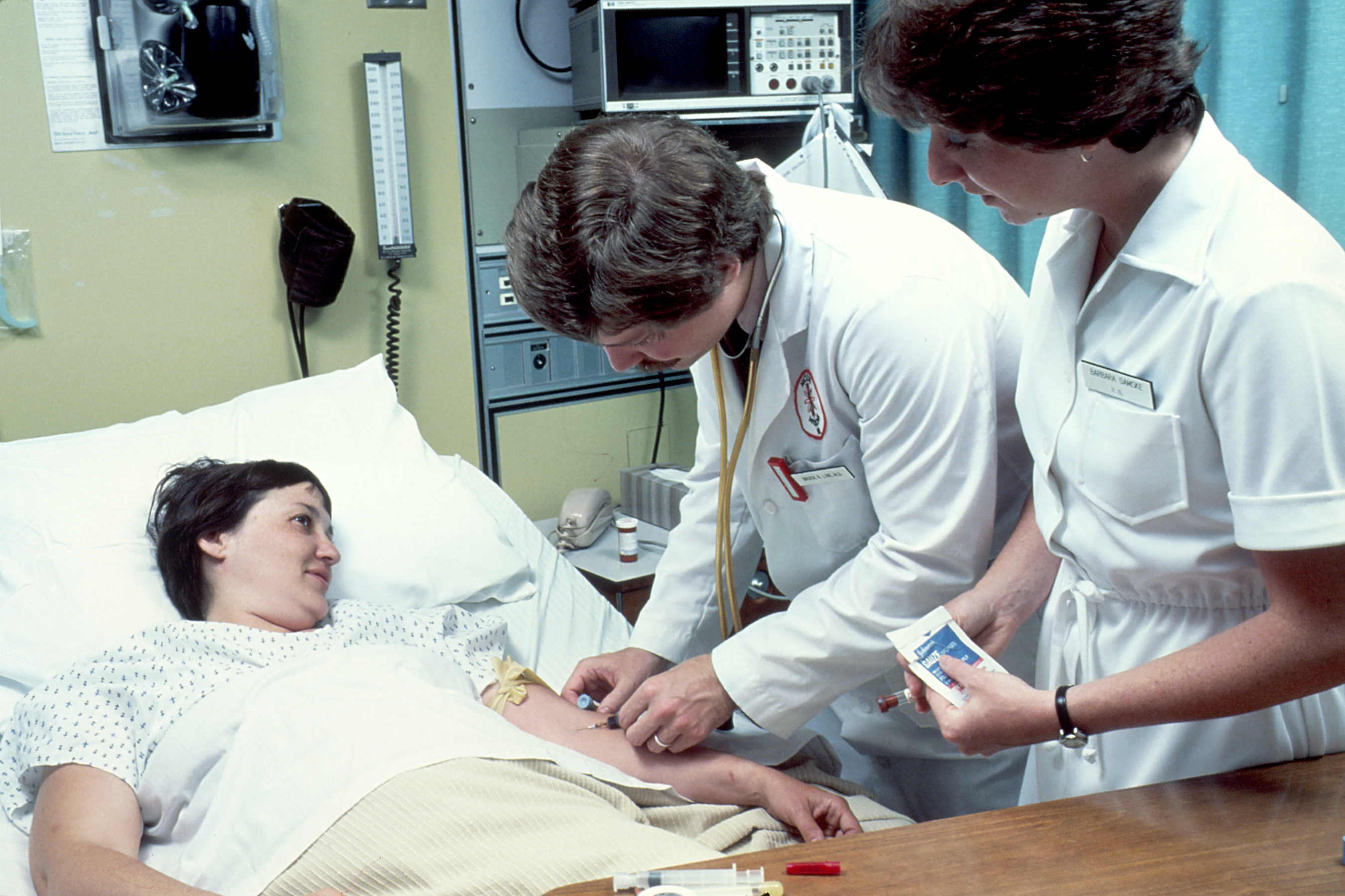 Title Blood Test Description A Caucasian adult woman lying in a hospital bed, covered with a sheet. She is having blood drawn by a Caucasian male doctor with a Caucasian female nurse is in attendance. The patient is looking at the doctor and smiling. Topics/Categories Locations -- Clinic/Hospital People -- Adult People -- Health Professional and Patient Test or Procedure -- Lab Tests Type Color, Photo Source National Cancer Institute